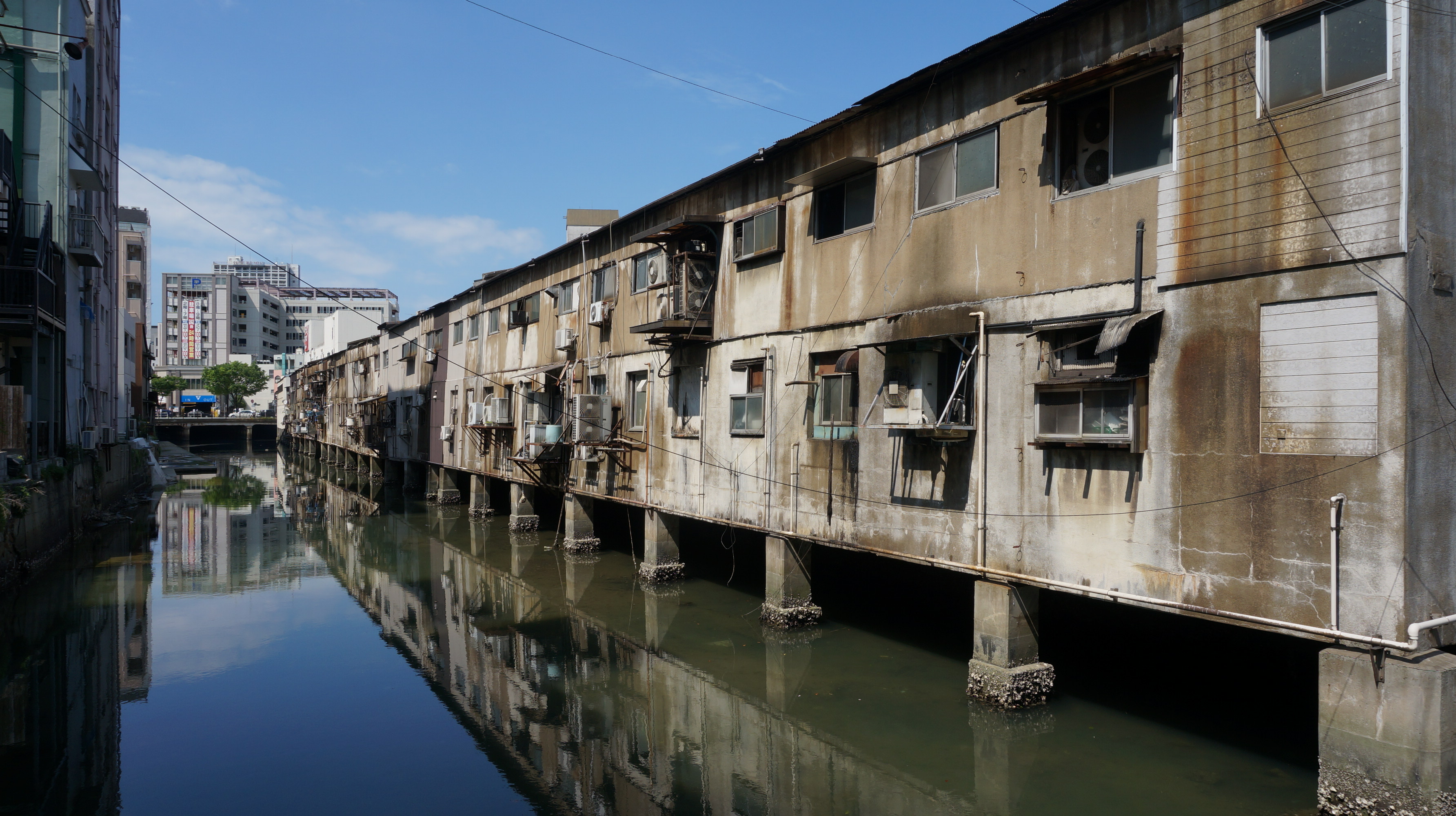 Tanga area along the Kantake River in Kitakyushu City, Japan. (May 2017)